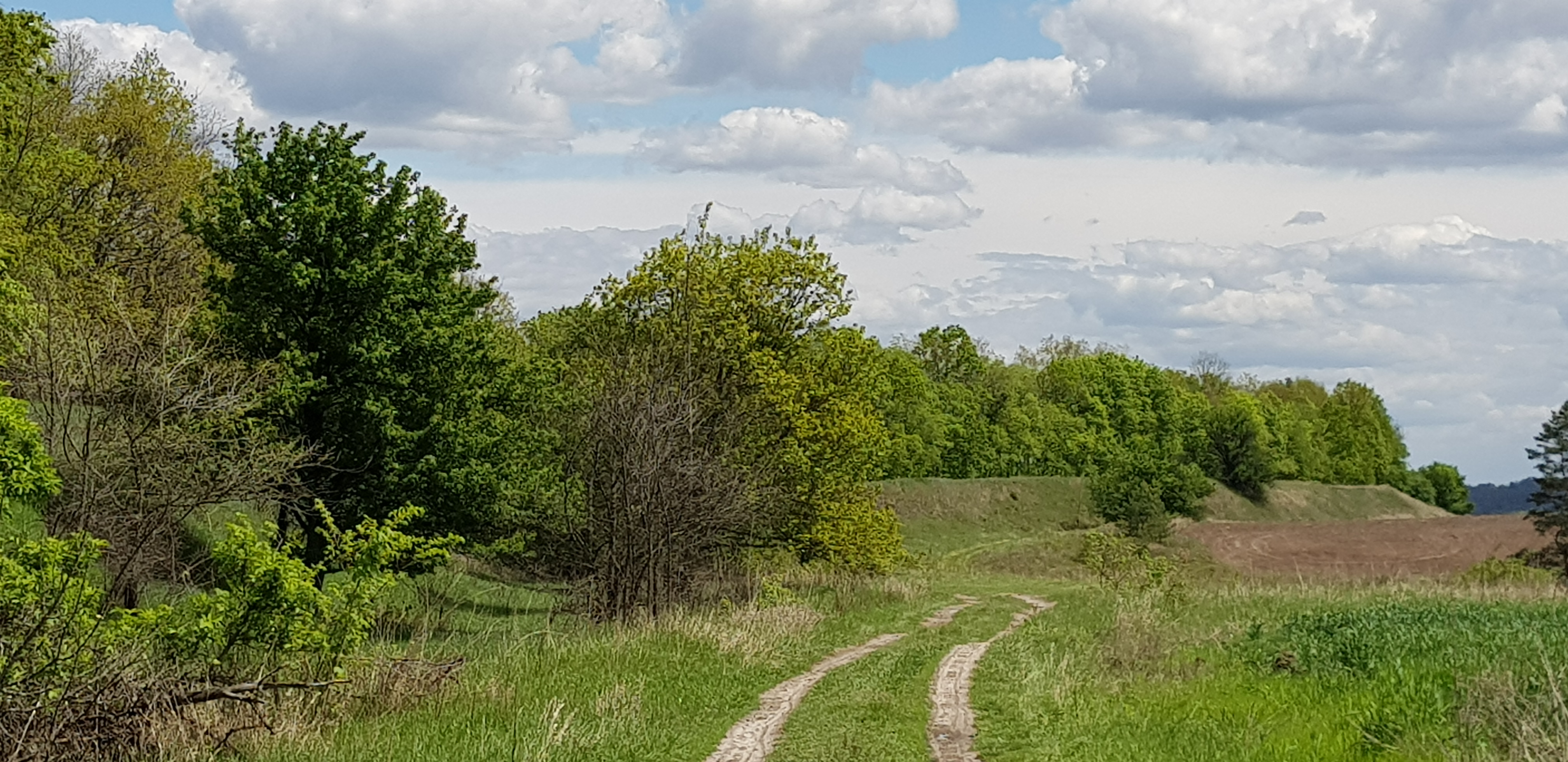 Wall near village of Ivankovyche